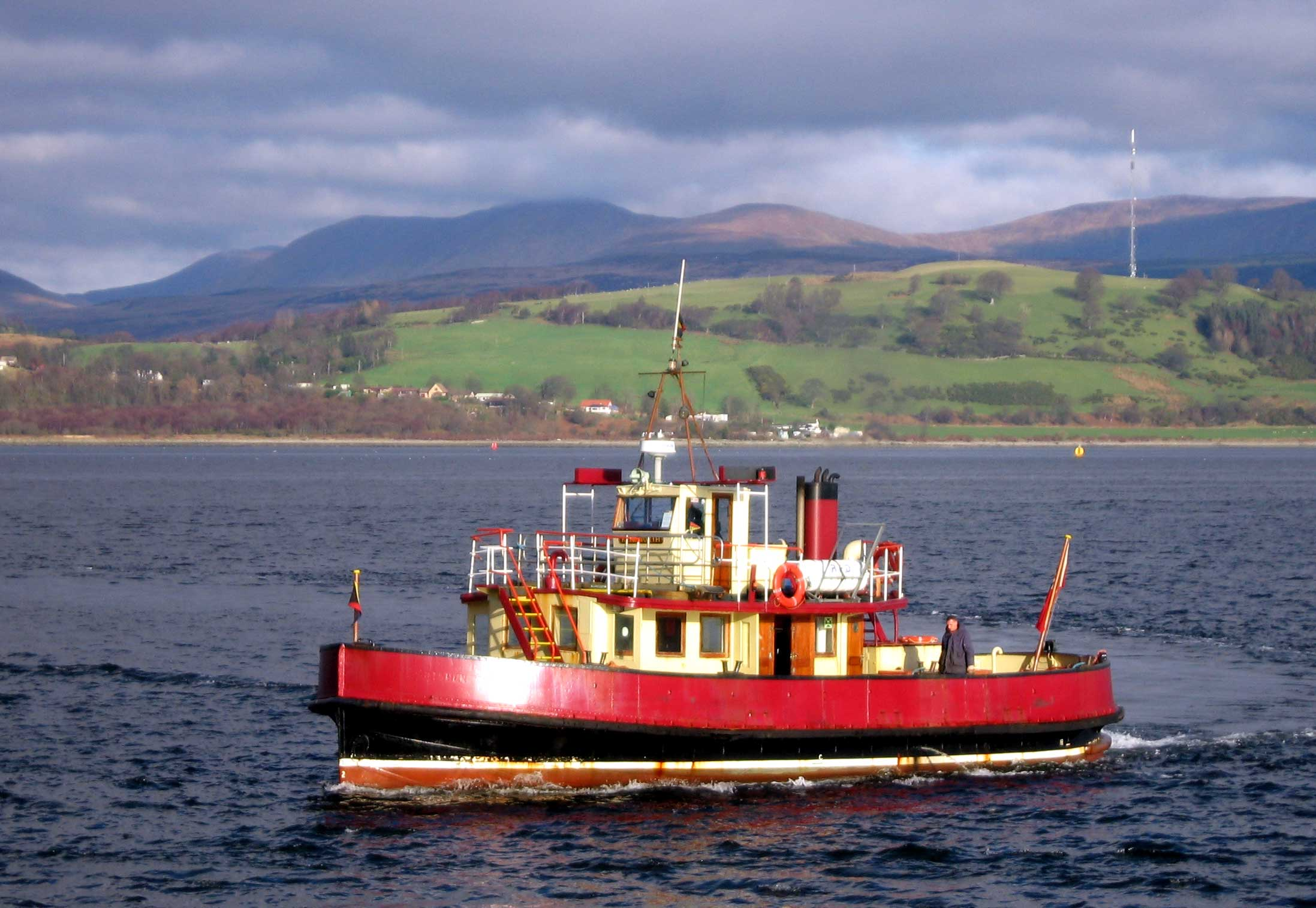 The ferry MV Kenilworth arriving at Gourock pierhead, having crossed the Firth of Clyde from Kilcreggan. The television mast on the Rosneath peninsula is visible in the background.